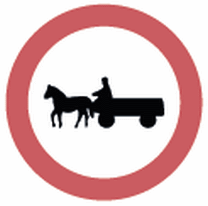 Diagram of road signs of Luxembourg